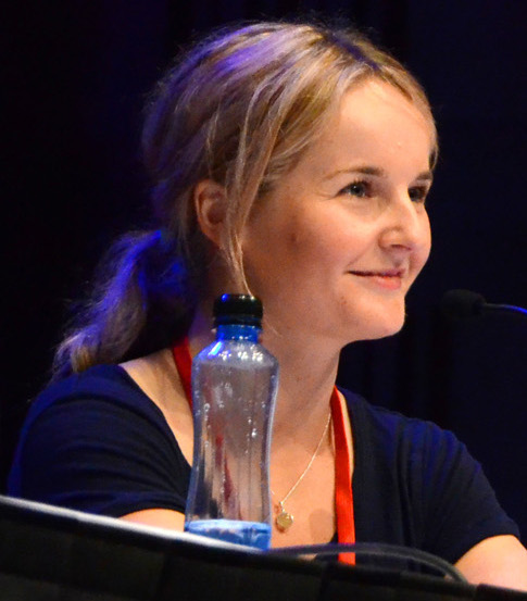 Kirsten Drysdale (The Checkout and Hungry Beast) at Australian Skeptics National Convention 2014 (cropped).